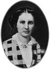 Elitha Donner (Mrs. Benjamin Wilder), who, as a child was trapped with her family in the Sierra Nevada Mountains in 1847 as part of the Donner Party.